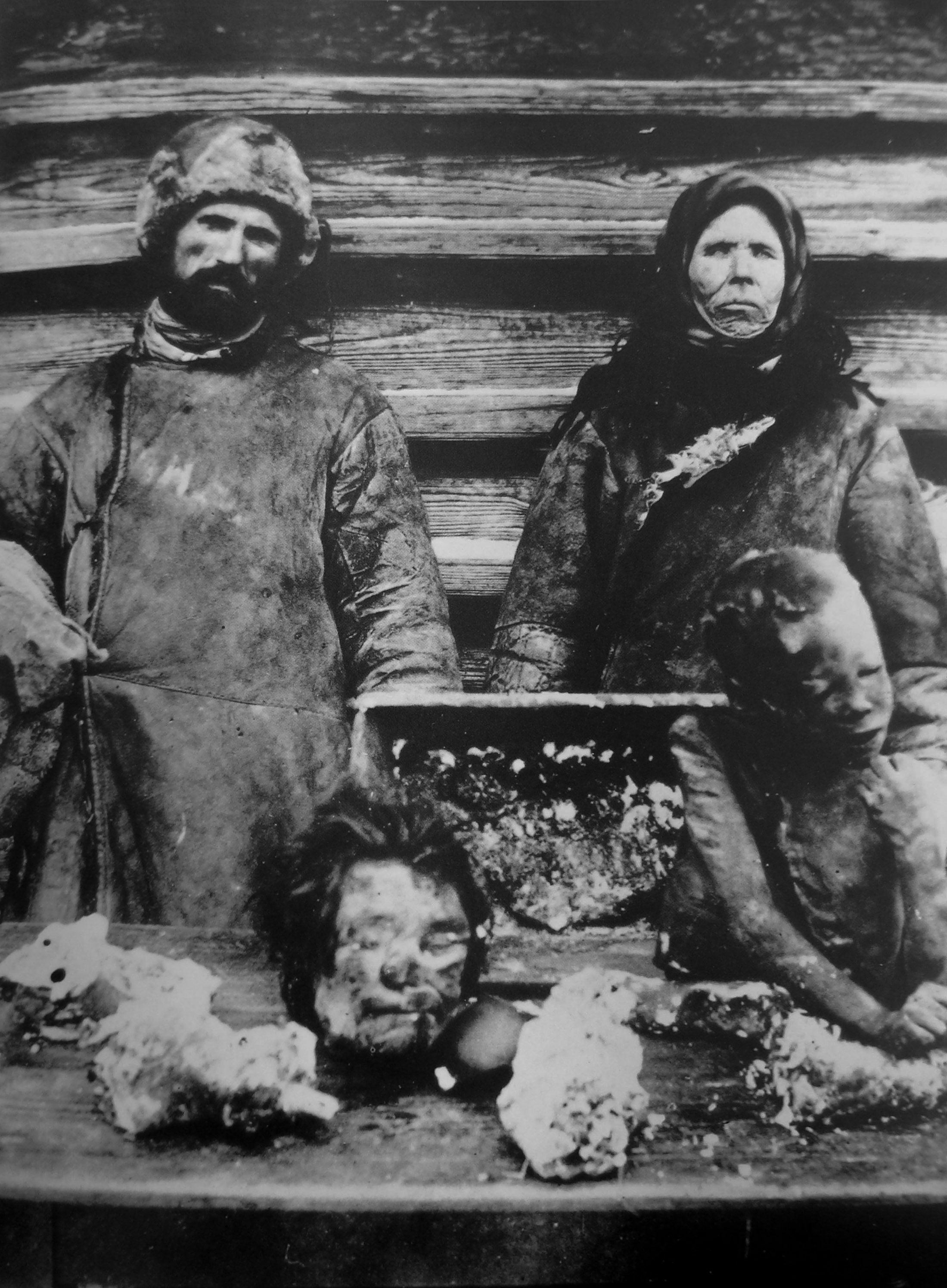 Cannibals with their victims, Samara province, Volga region, Russia, 1921.